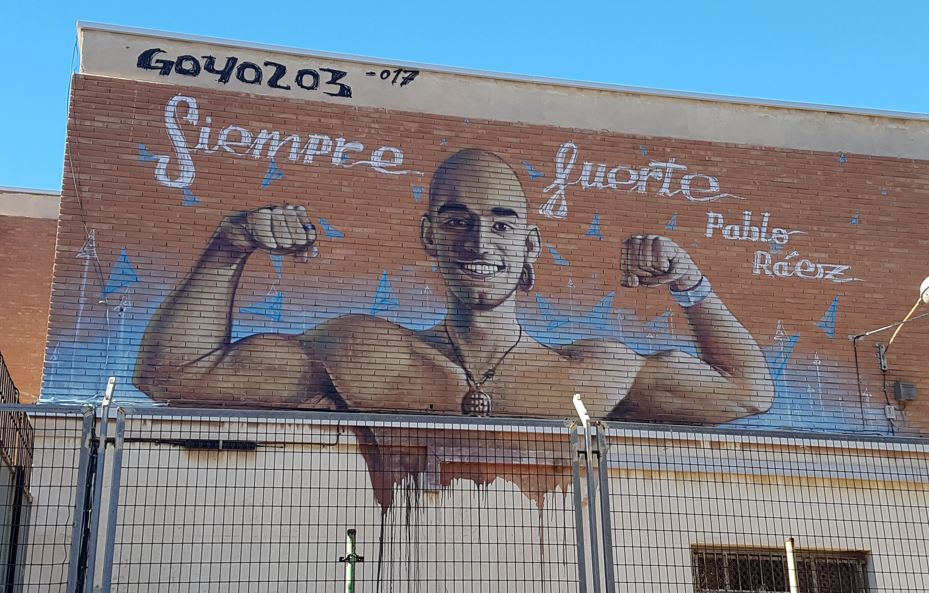 Graffiti in tribute to Pablo Ráez at the IES Isaac Peral in Cartagena (Spain), work of the artist Goyo203 in March 2017.